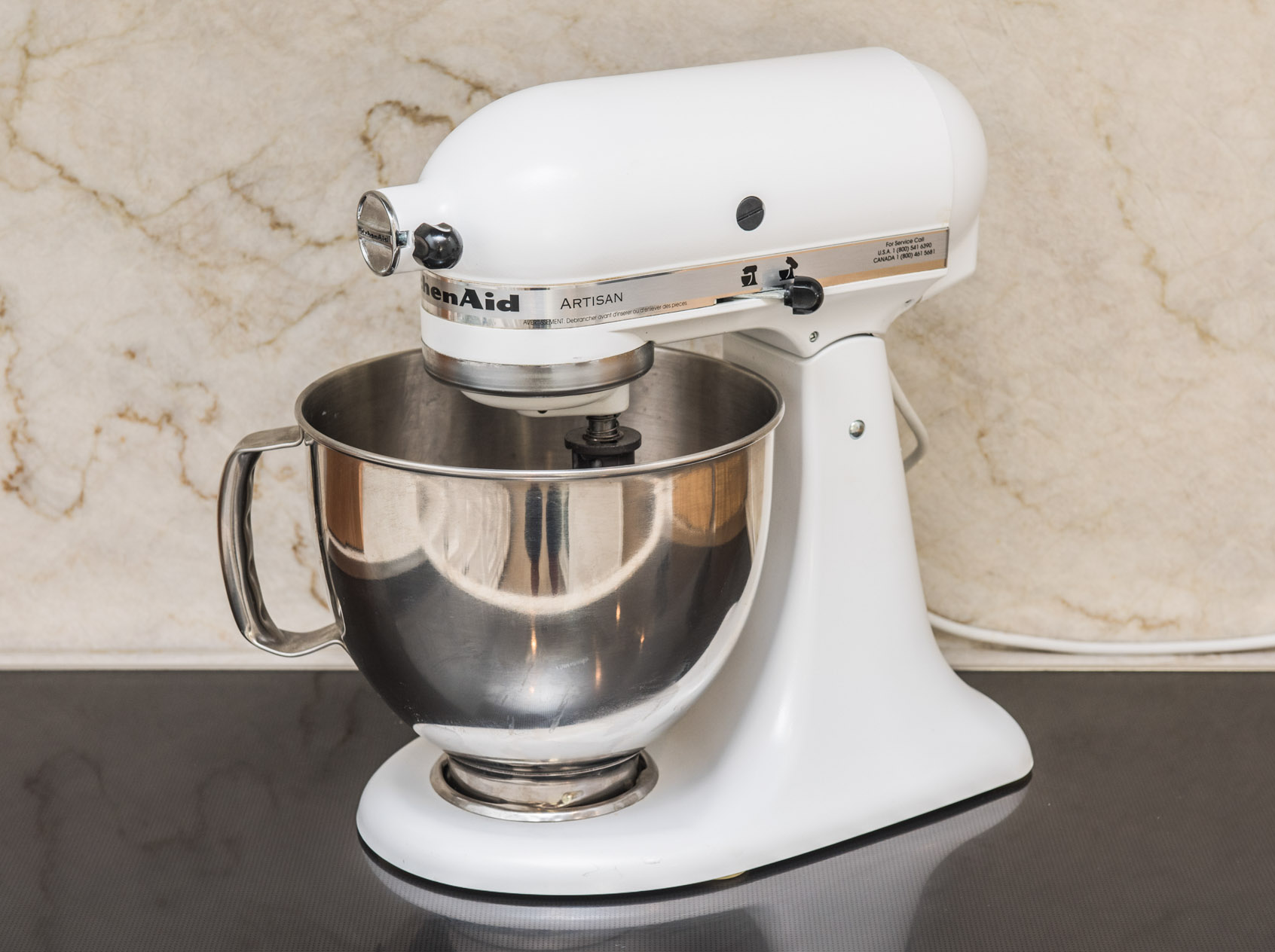 KitchenAid mixer (model KSM150PSWH).